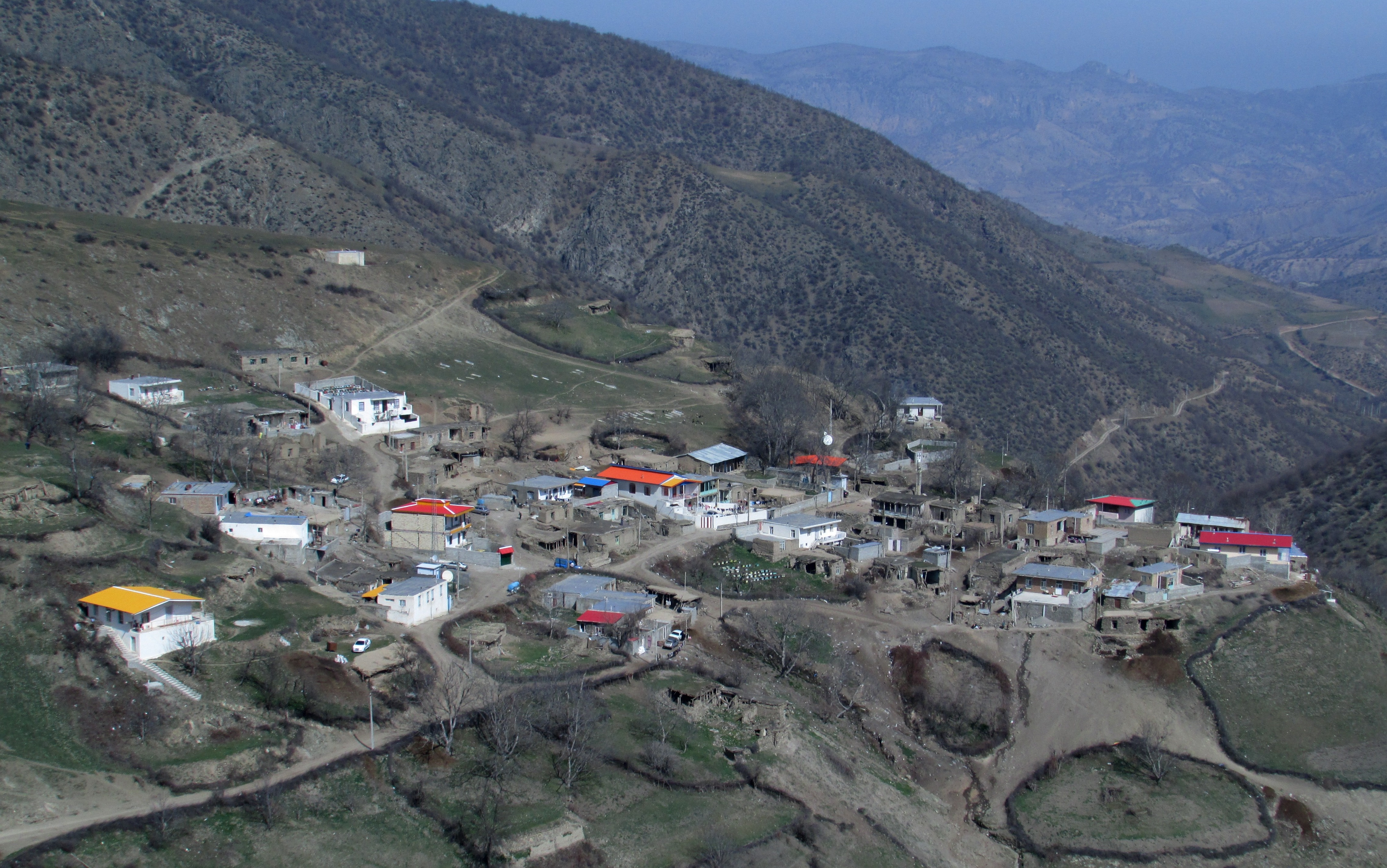 This photo of Abbasabad, Khoda Afarin in Arasbaran region was taken by Mr. Ravanbakhsh Leysi.